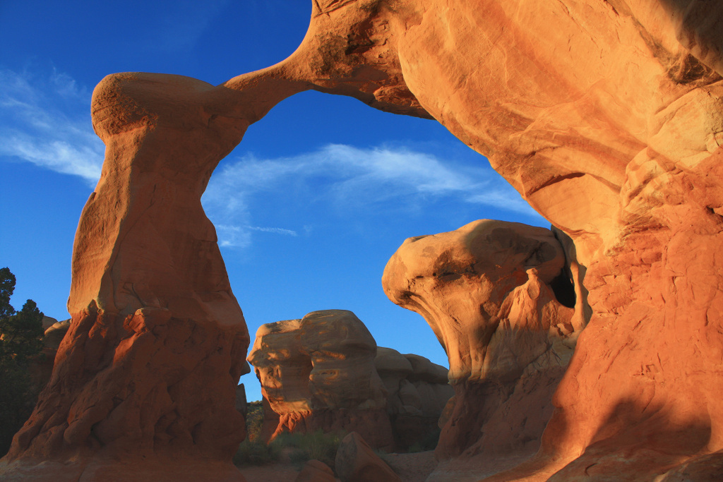 Grand Staircase-Escalante National Monument, Utah, USA, Devils Garden, Metate Arch, sunset